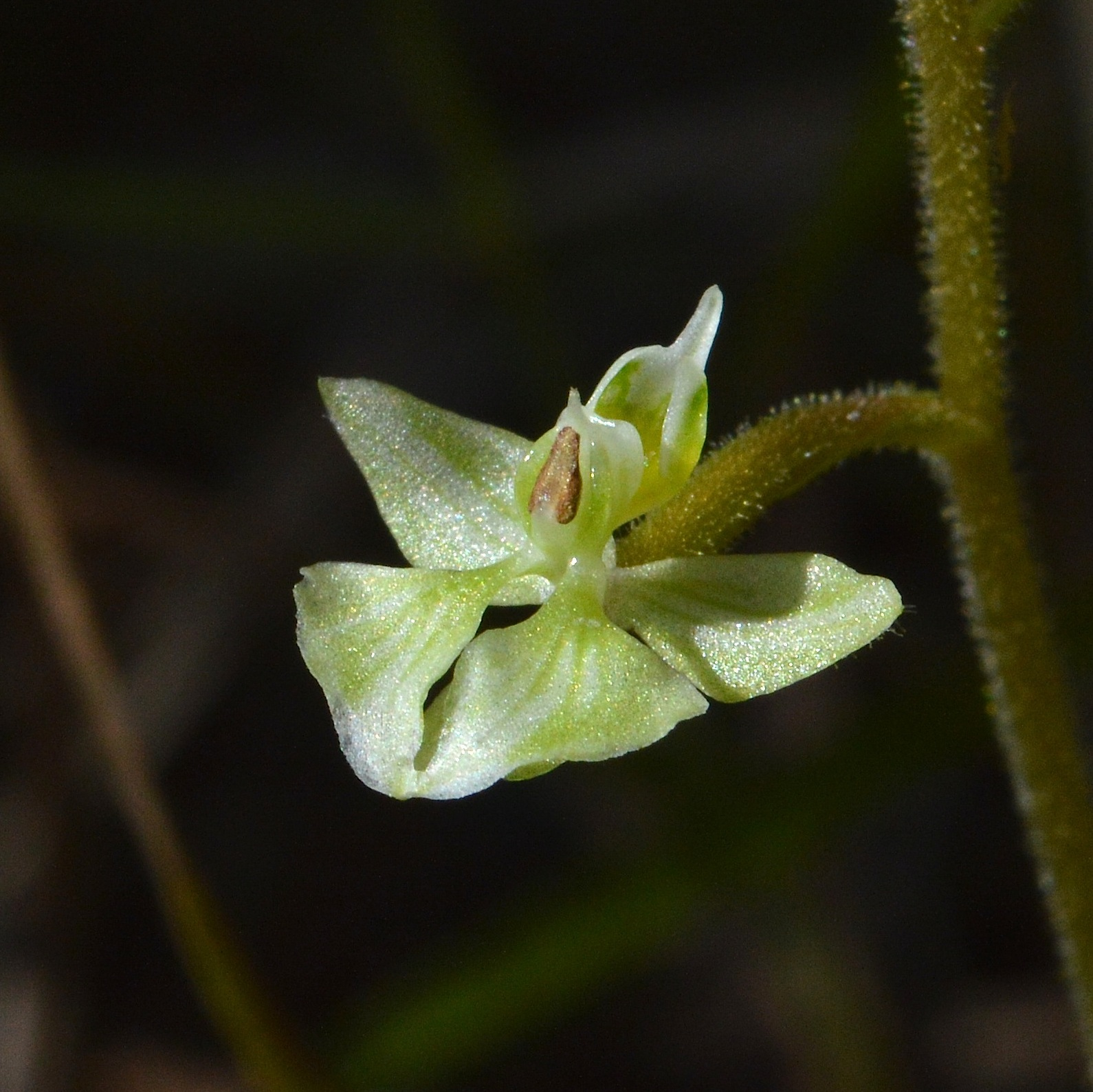 Photo taken in Wayne County Mississippi at 31.7998, -88.501611 on 22 September 2013.